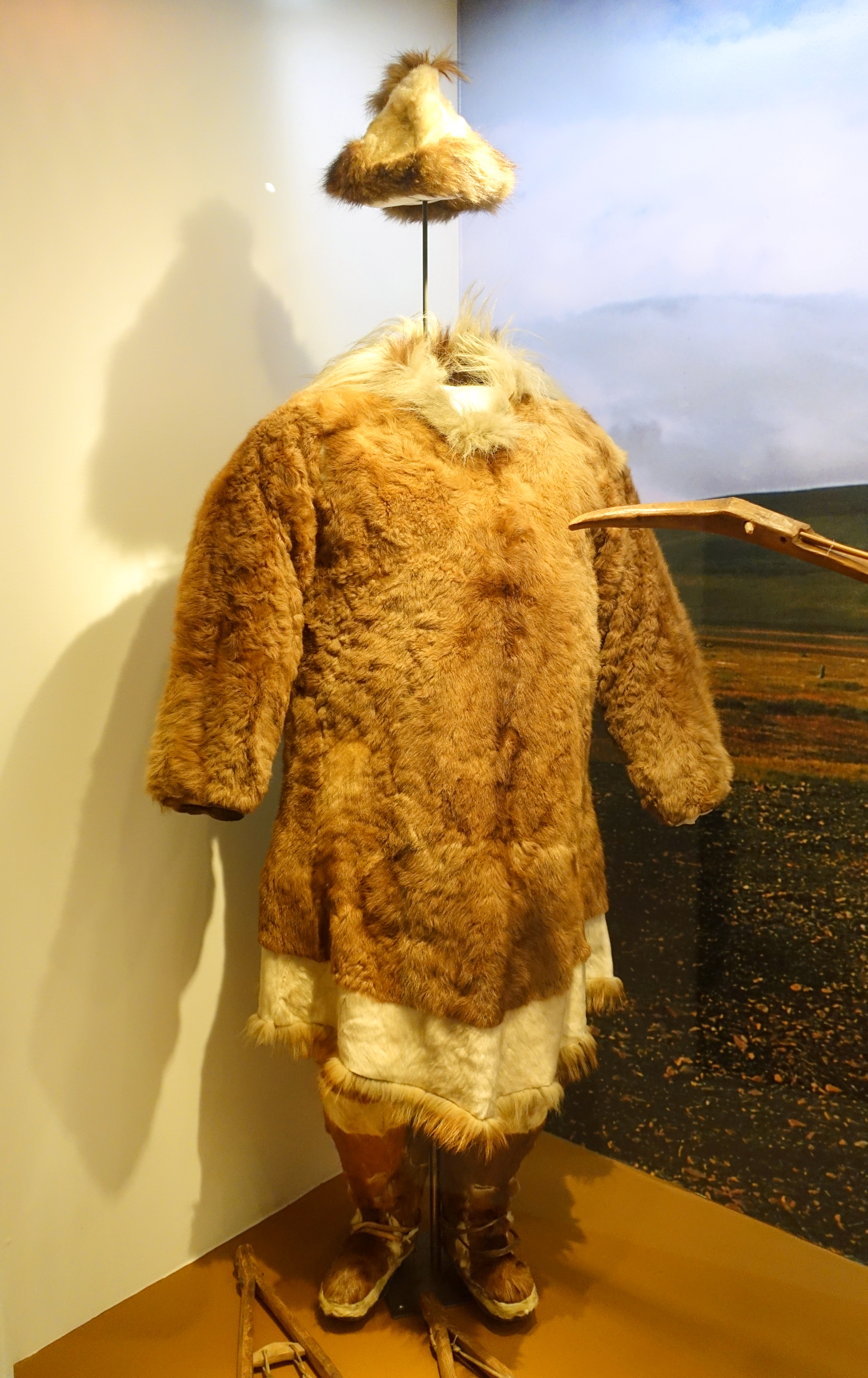 Exhibit in the Etnografiska museet, Stockholm, Sweden. This work is old enough so that it is in the public domain.